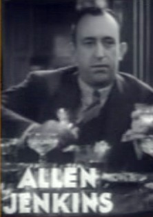 Cropped screenshot of Allen Jenkins from the trailer for the film The Keyhole